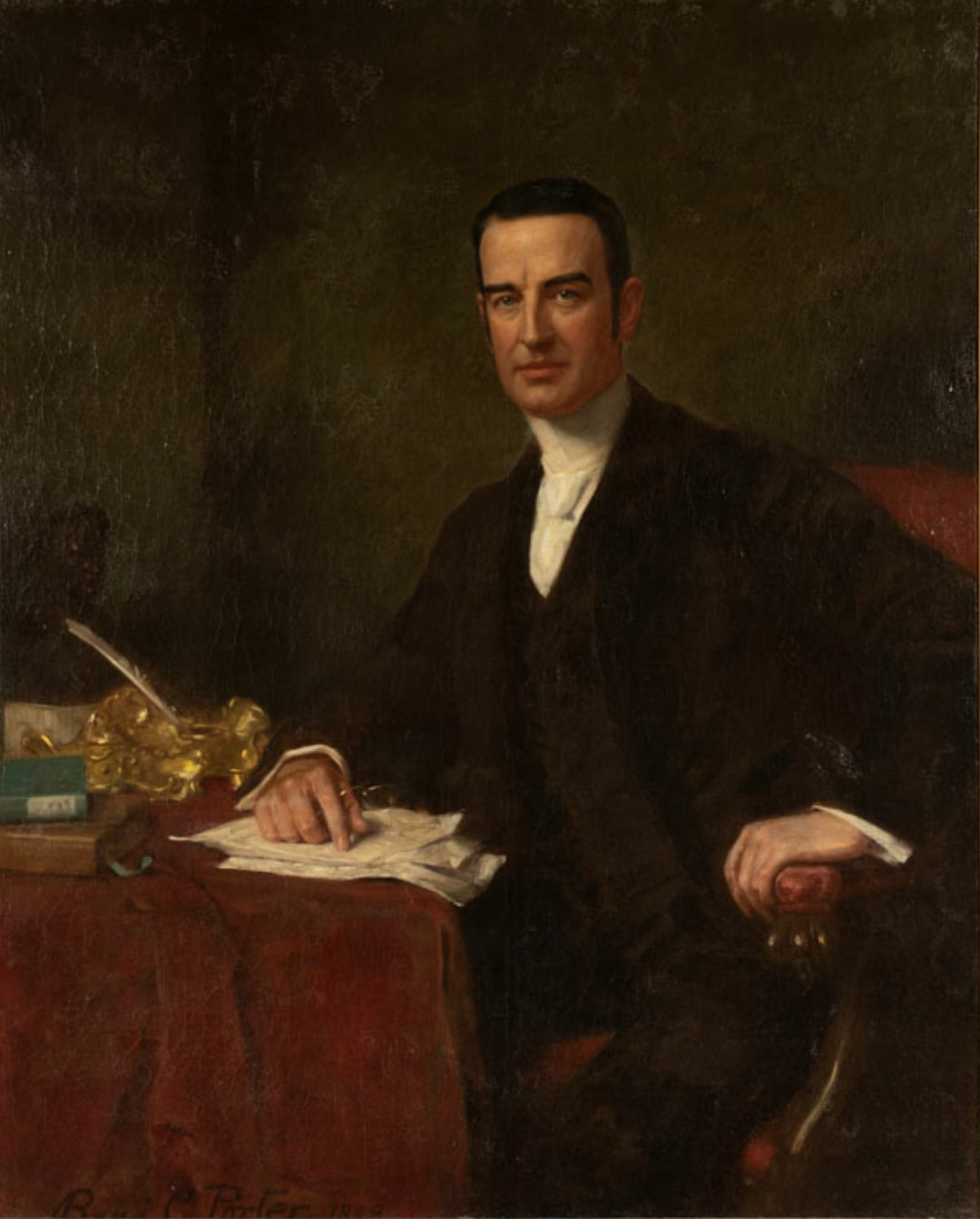 Cornelius Vanderbilt II (1843-1899)